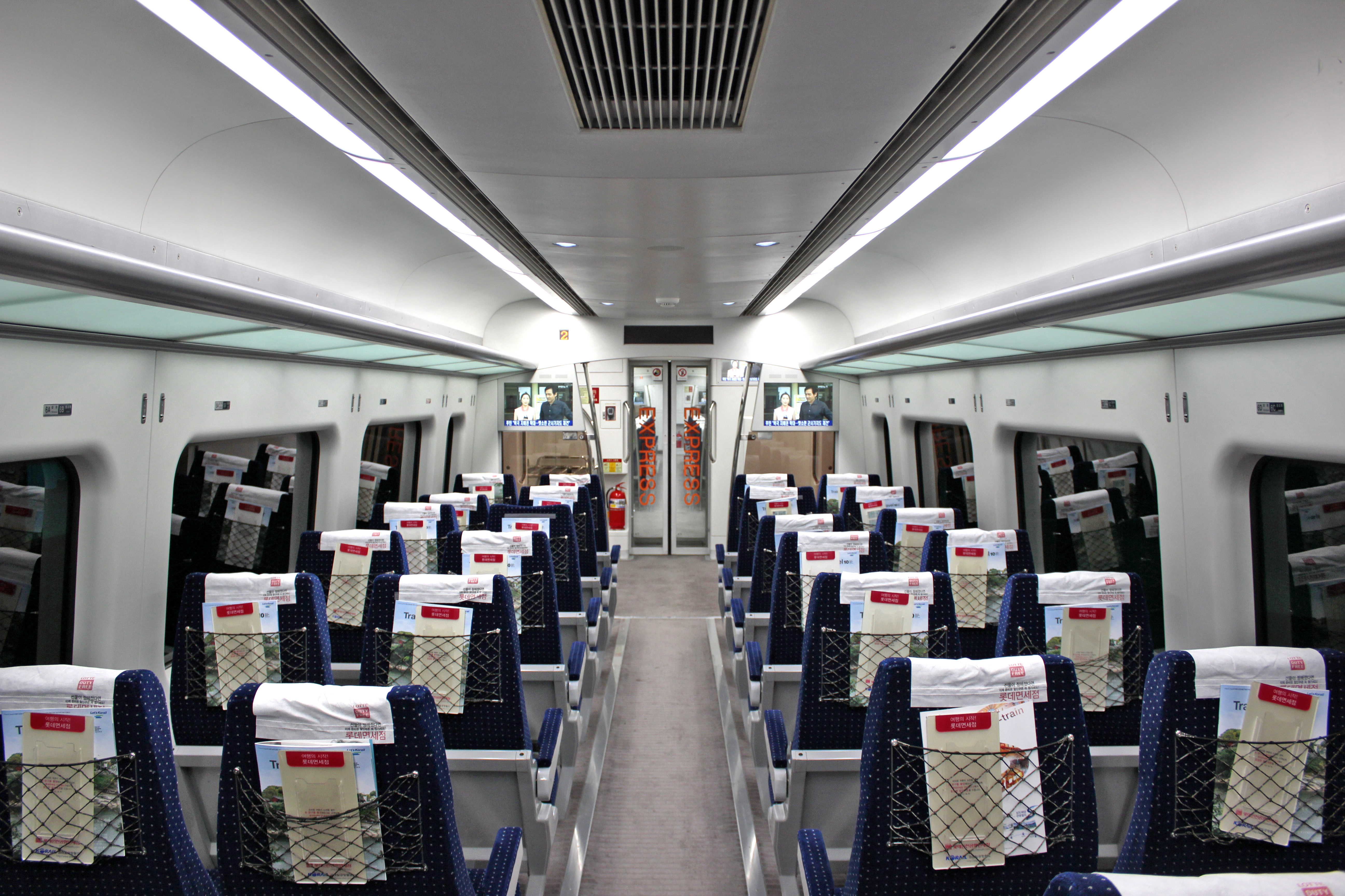 @Seoul Station Westbound Platform